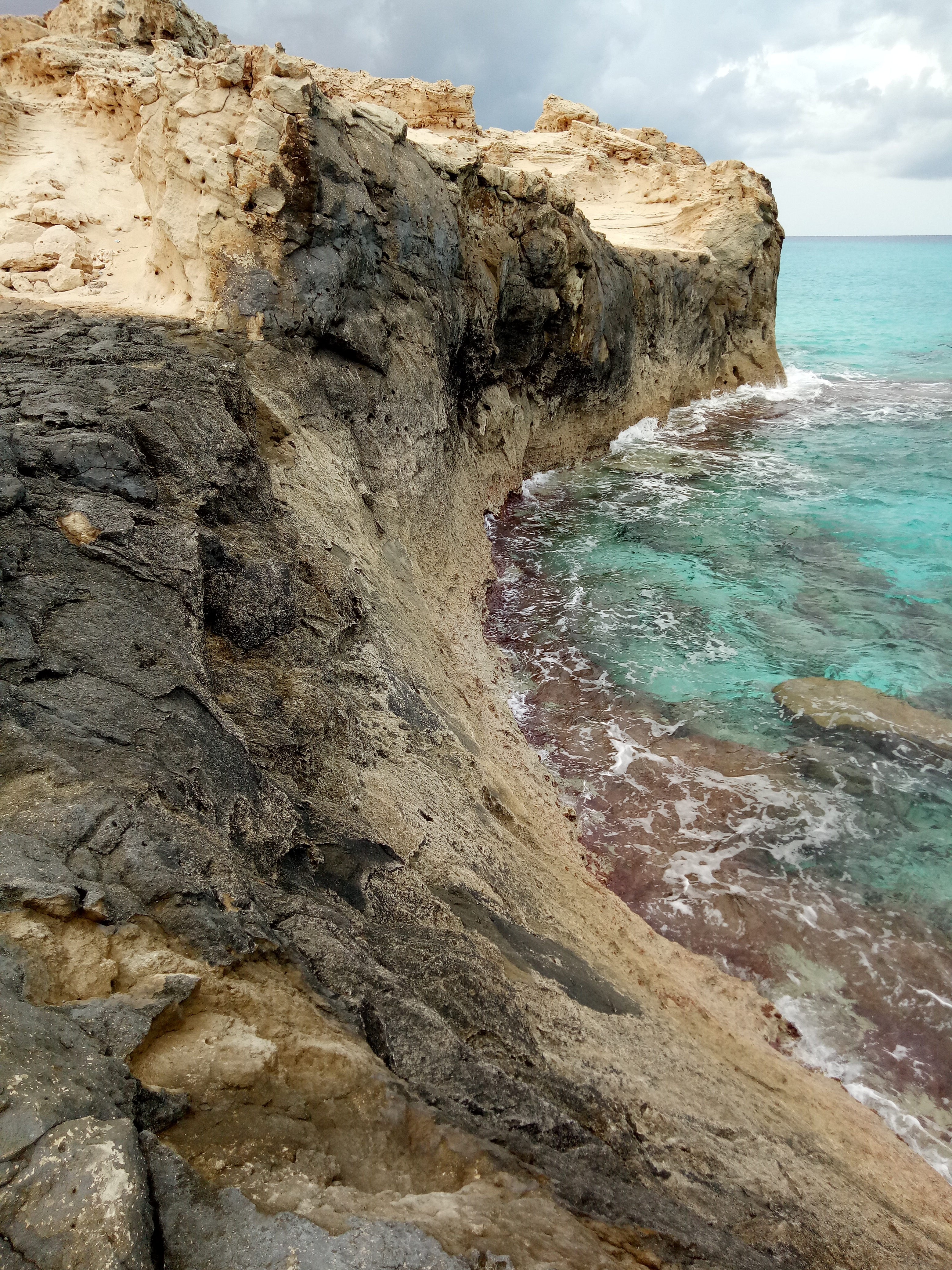 Marsa Rock of the most beautiful place overlooking the beach Pure water for the sea This is an image with the theme "Play" from: Egypt